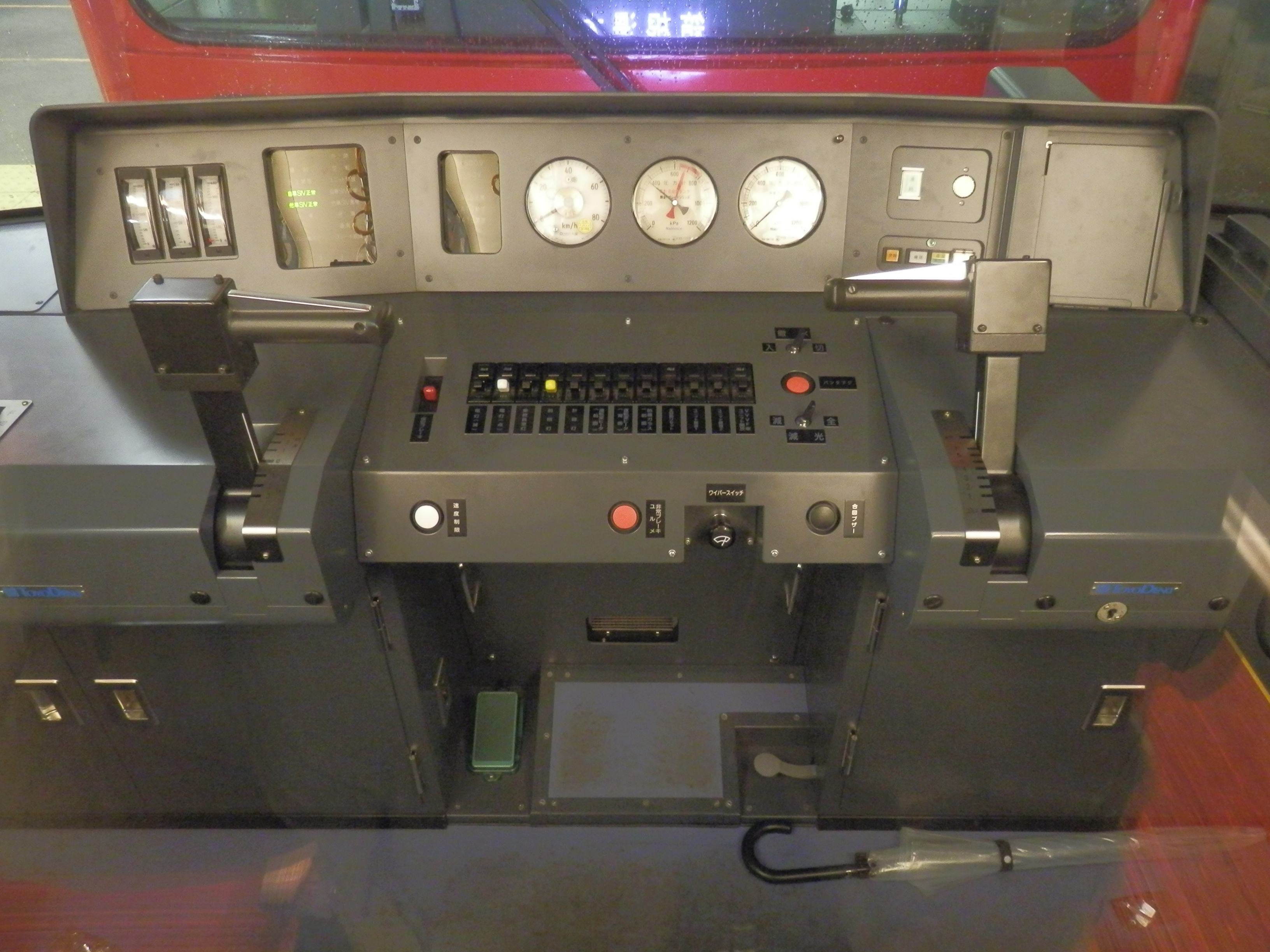 The driving cab of a Hakone Tozan Railway 3000 series "Allegra" EMU